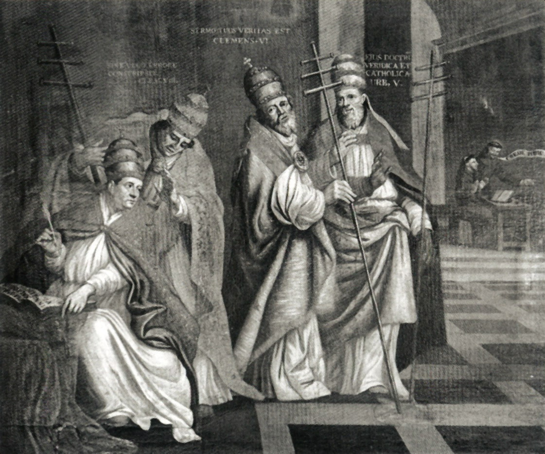 Painting by unknown painter (17th c) of four popes: Innocentius VI, Clemens VIII, Clemens VI and Urban V. Oil painting formerly in the Dominican monastery in Maastricht, now in the Treasury of the Basilica of Saint Servatius, Maastricht, the Netherlands.